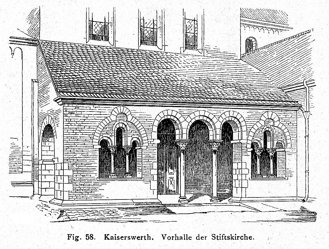 t